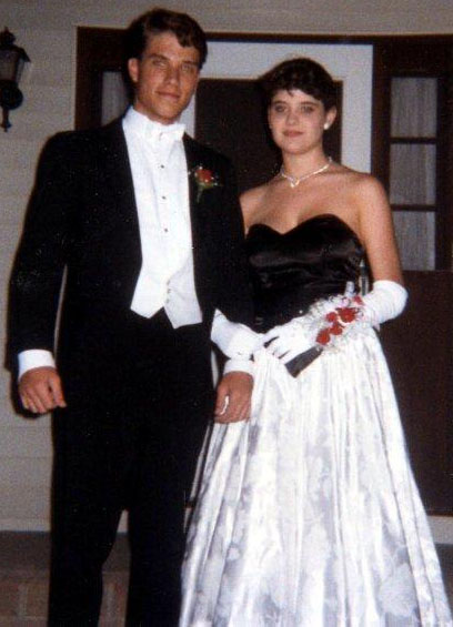 Man and woman in formal wear